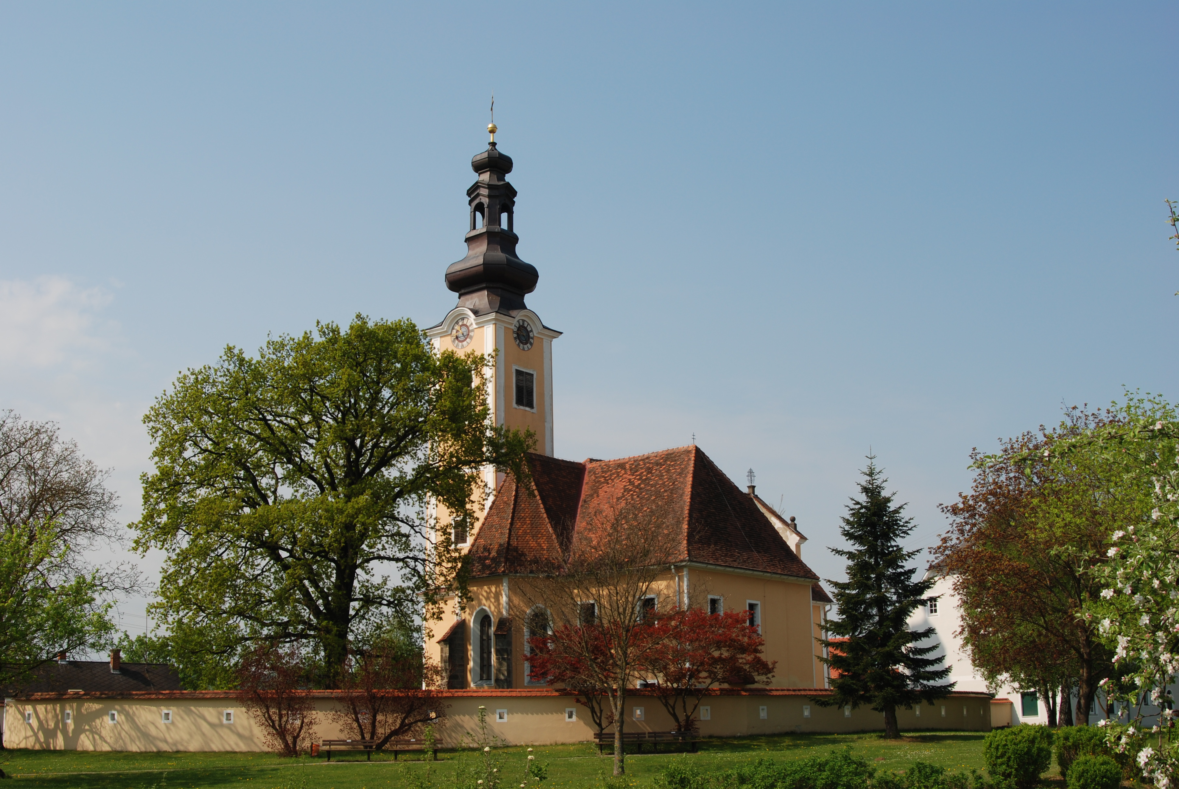 Church Söchau